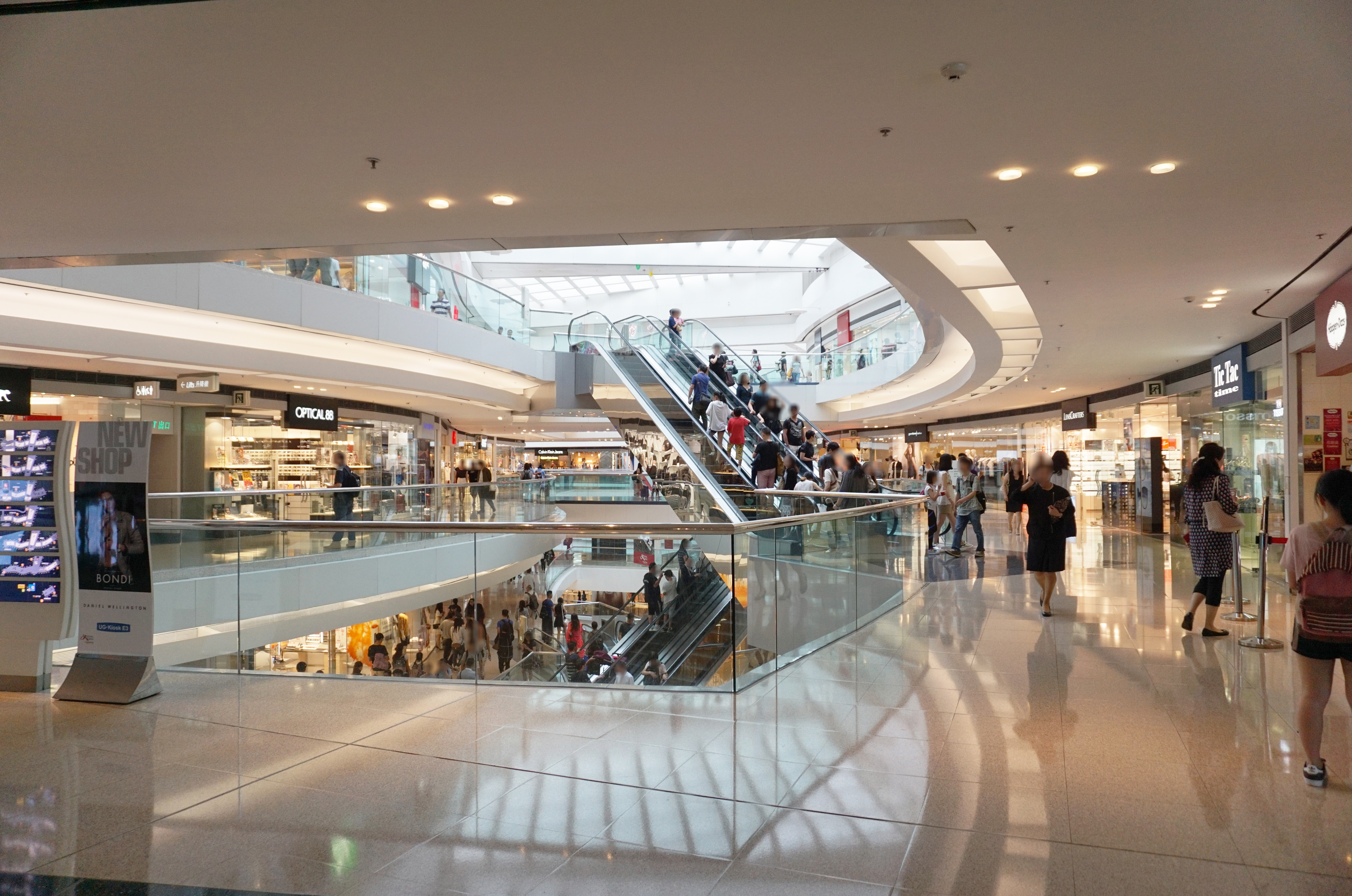 Festival Walk in Kowloon Tong, Hong Kong.